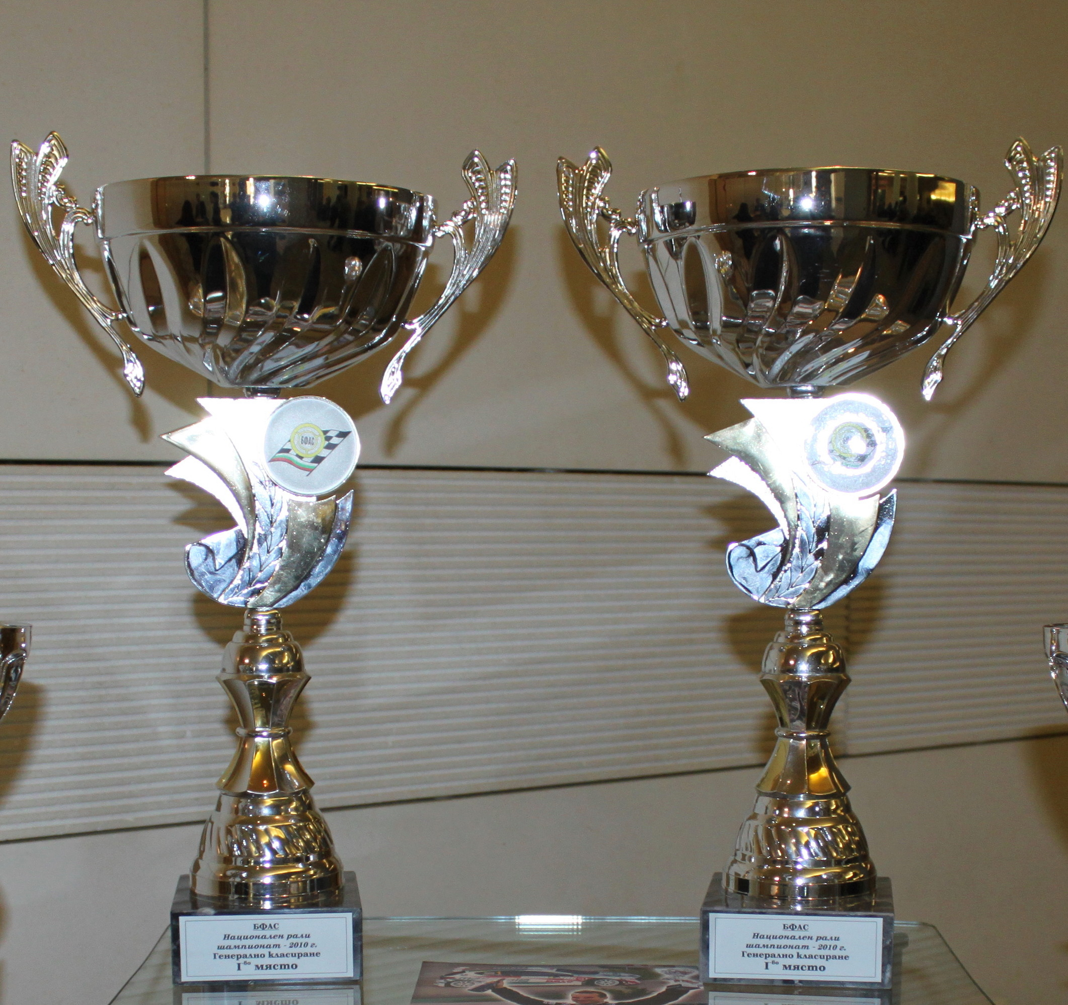 Prizes for first place in the Bulgarian national championship in 2010, received for the championship of Krum Donchev and Peter Yordanov.